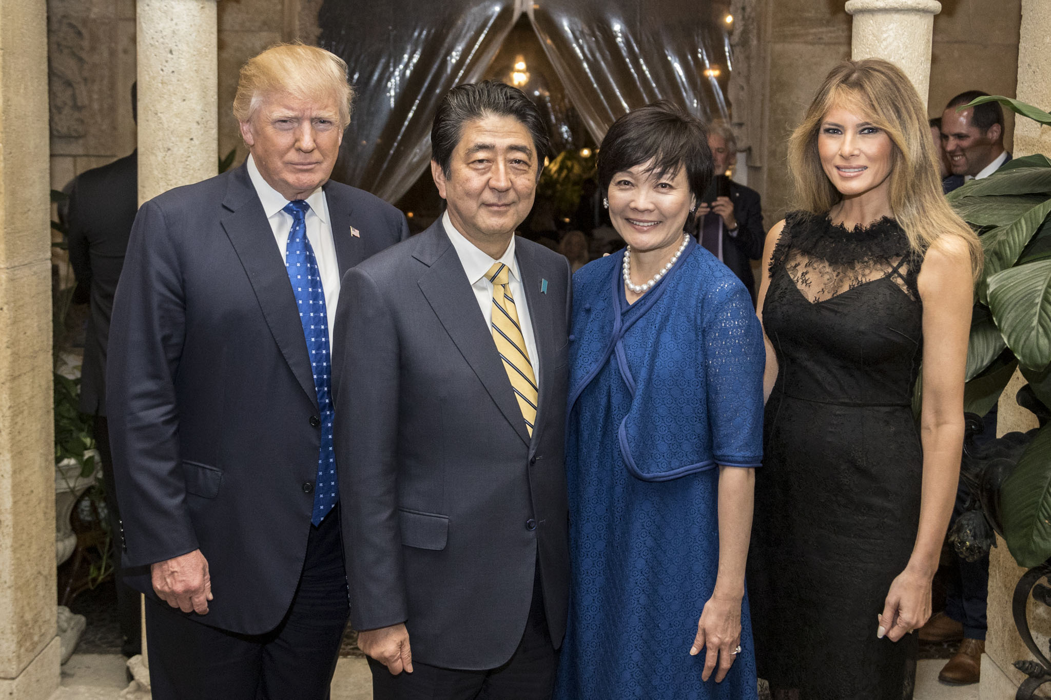 President Donald Trump and First Lady Melania Trump, are joined by Japanese Prime Minister Shinzō Abe, and his wife, Mrs. Akie Abe, as they pose for photos Saturday, Feb. 11, 2017, at Mar-a-Lago in Palm Beach, FL. (Official White House Photo by Shealah Craighead)